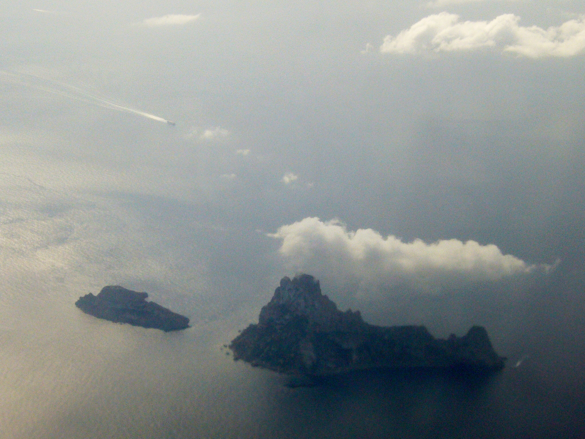 Aerial photo of the island of Es Vedra